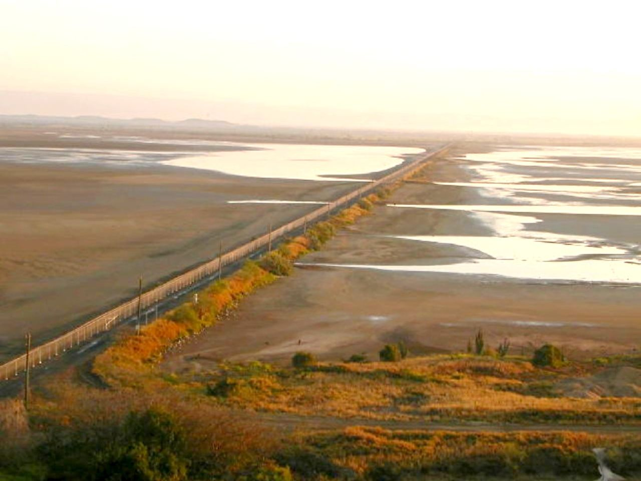 Fenceline, on the leeward side of the base. The right side of the fenceline is American; the left side is Cuban.